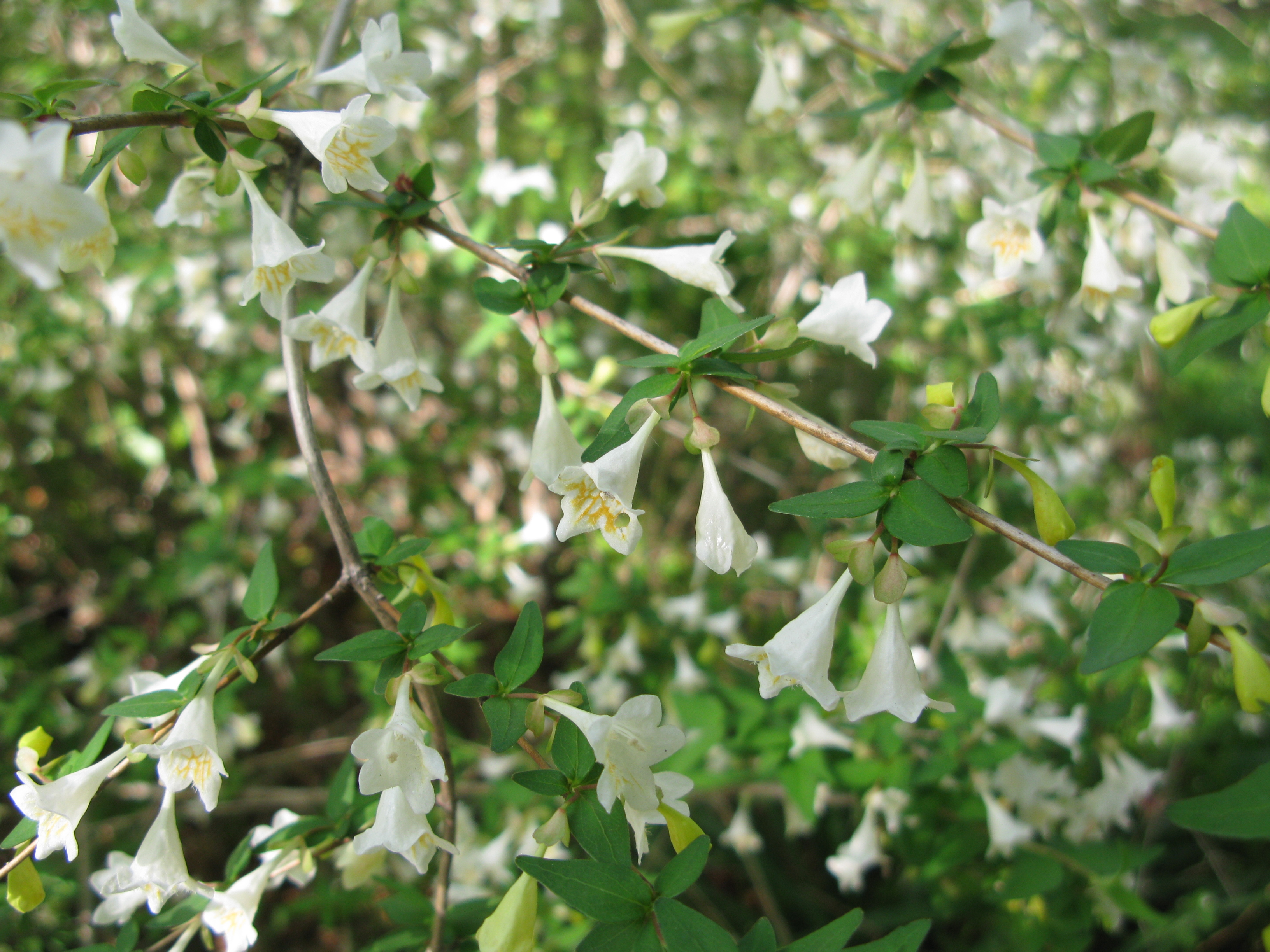 Abelia serrata, Koishikawa, Botanical Gardens, the University of Tokyo, Japan